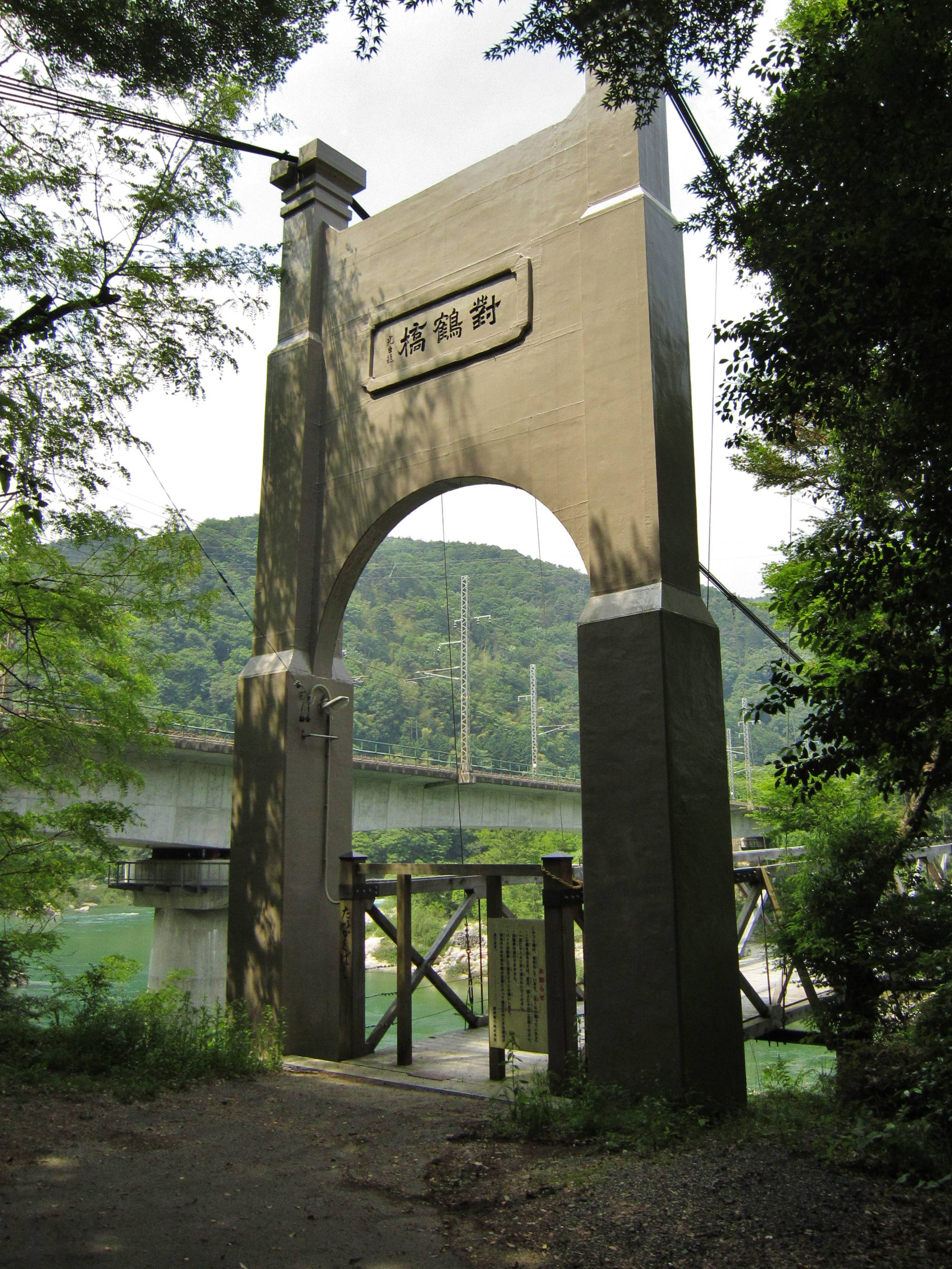 Taikakubashi Bridge.